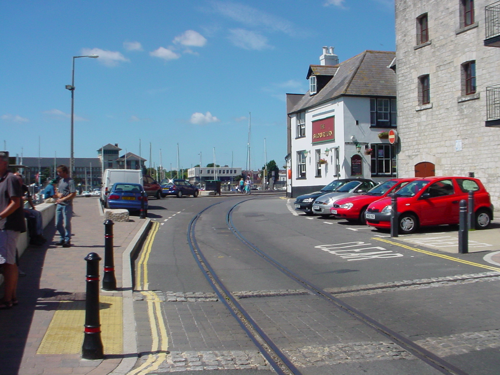 The Weymouth Harbour Tramway photographed from the Town Bridge, August 2005. This shows the disused tramway near Ferry's Corner.